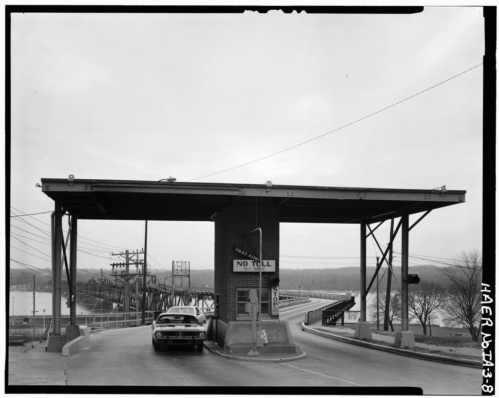 Keokuk Rail Bridge toll booth, Keokuk, 1982 Summary This image was found at the Library of Congress HAER archive entry with the original caption: "8. TOLLBOOTH AT KEOKUK: NORTHWEST ELEVATION. PHOTOGRAPHER: SARAH J. DENNETT - Keokuk & Hamilton Bridge, Spanning Mississippi River, Keokuk, Lee County, IA" It is a part of the Historic American Engineering Record collection of photos. Image taken by Sarah J. Dennett, Winter 1982. Note found on caption page These photographs are Government material and are not subject to copyright. However, the courtesy of a credit line identifying the Historic American Engineering Record and the photographer would be appreciated.